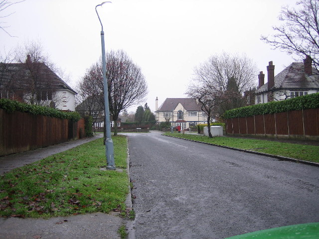 Beech Lanes. The name of this estate reflects the leafy nature of the area. This road leads to the loop of a road called Fitzroy Avenue.